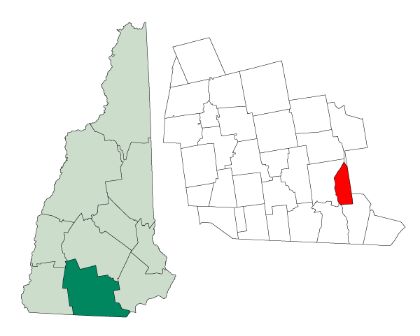 Map of a municipality in Hillsborough County, New Hampshire